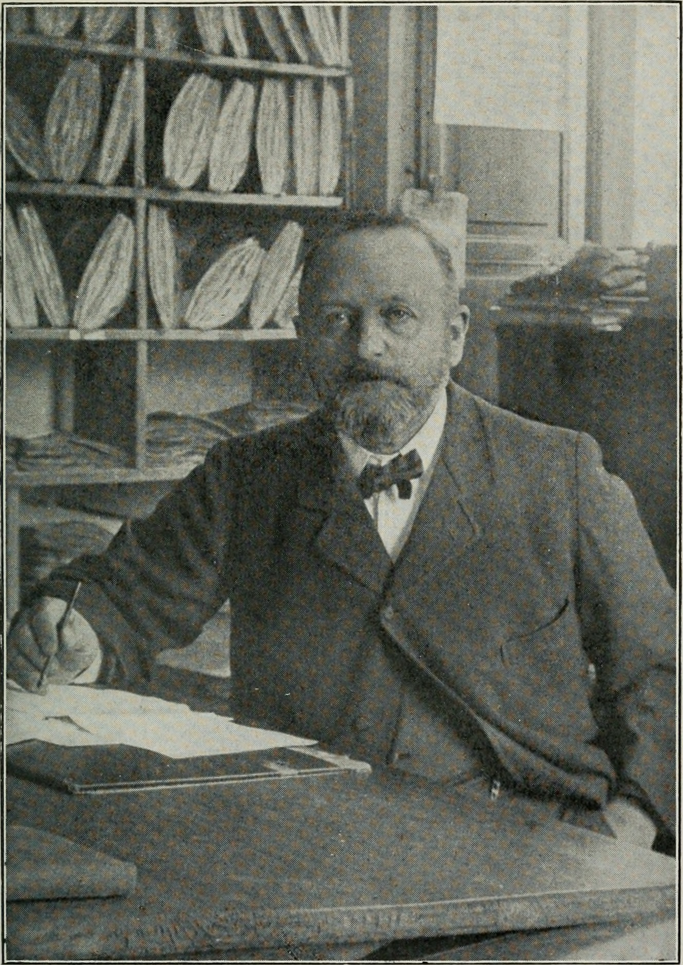 SAVERIO BELLI Title: Atti della Reale Accademia delle scienze di Torino Year: 1866-1927. (1860s) Authors: Reale accademia delle scienze di Torino Subjects: Publisher: Torino : L'Accademia Text Appearing Before Image: ' Text Appearing After Image: SAVERIO BELLI nato il 25 maggio 1852, morto il 7 aprile 1919.